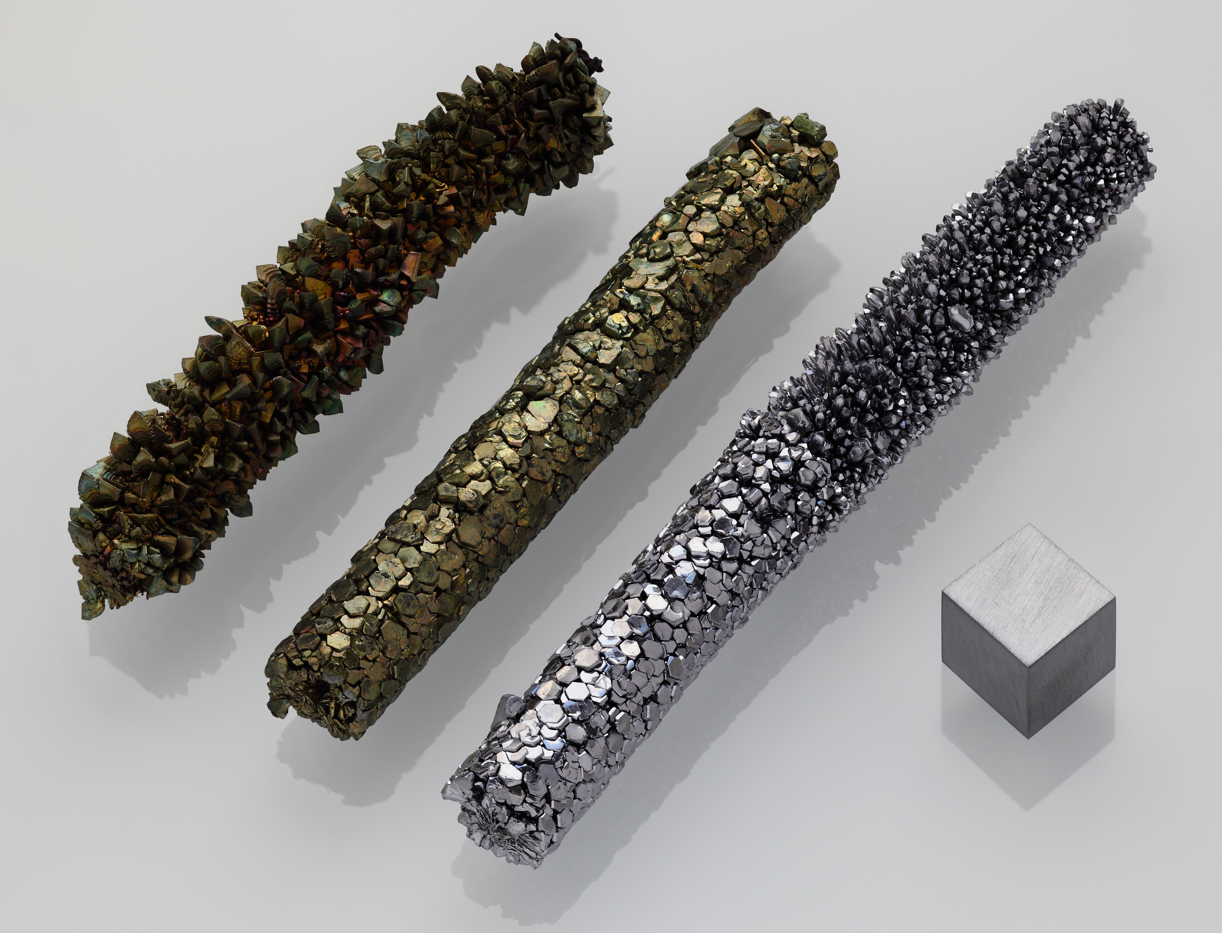 Purest Vanadium 99.9 %, three samples of a crystal bar showing different crystal textures and an on air greenish oxidized surface, made by crystal bar process (from the collection of Ethan Currens), as well as a highly pure (99,95 % = 3N5) 1 cm3 vanadium cube for comparison.